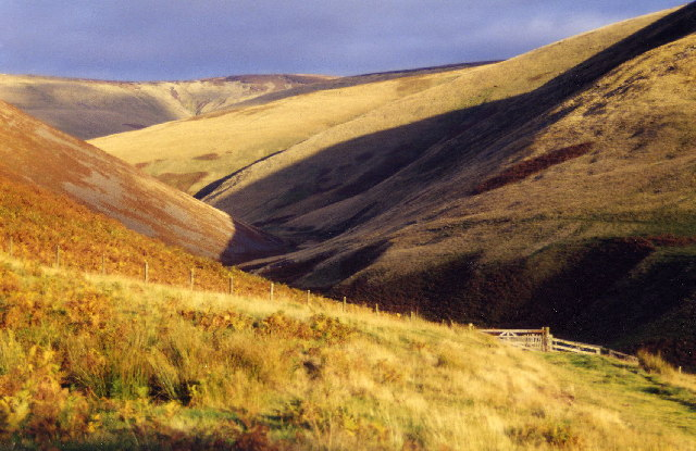 Cheviot Burn. Looking east up the valley of the Cheviot Burn to Auchope Cairn